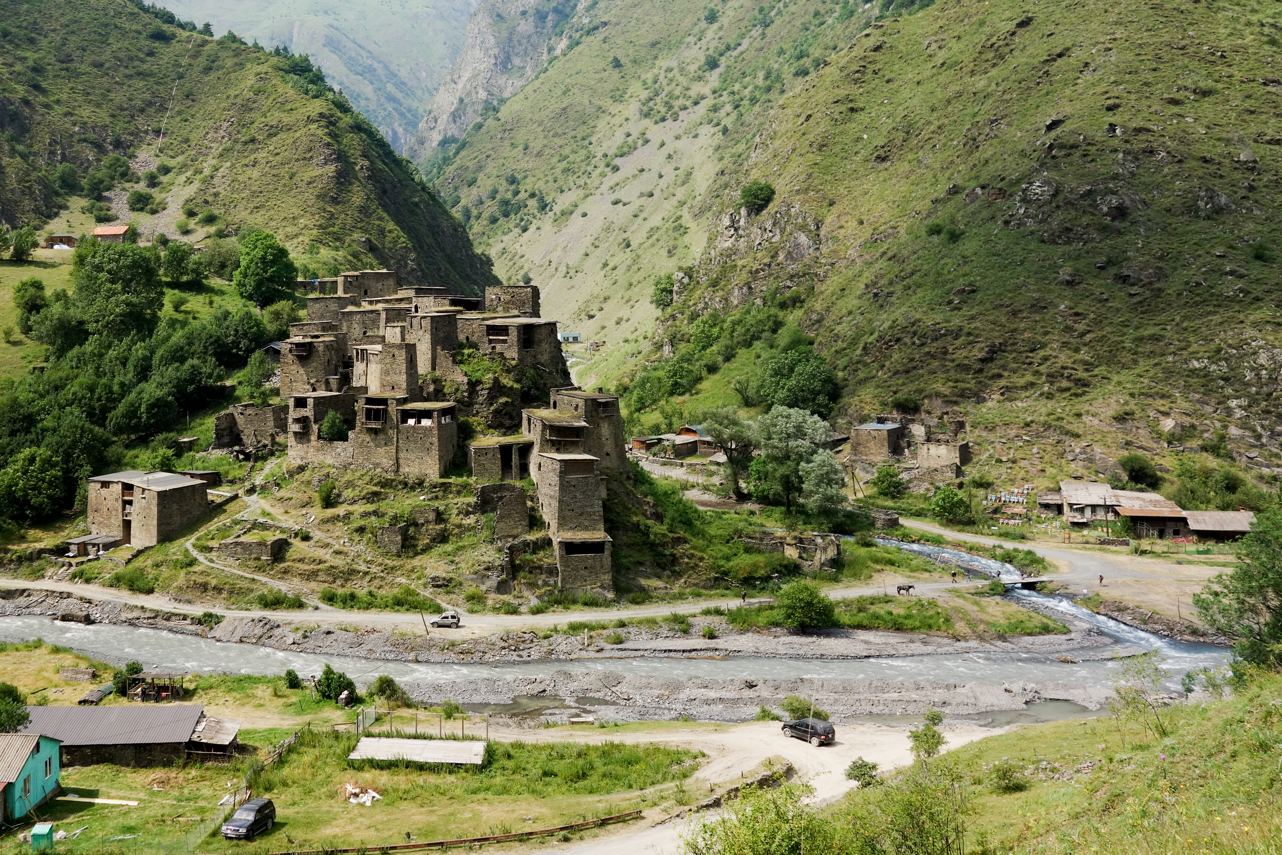 Shatili, Mtskheta-Mtianeti, Georgia